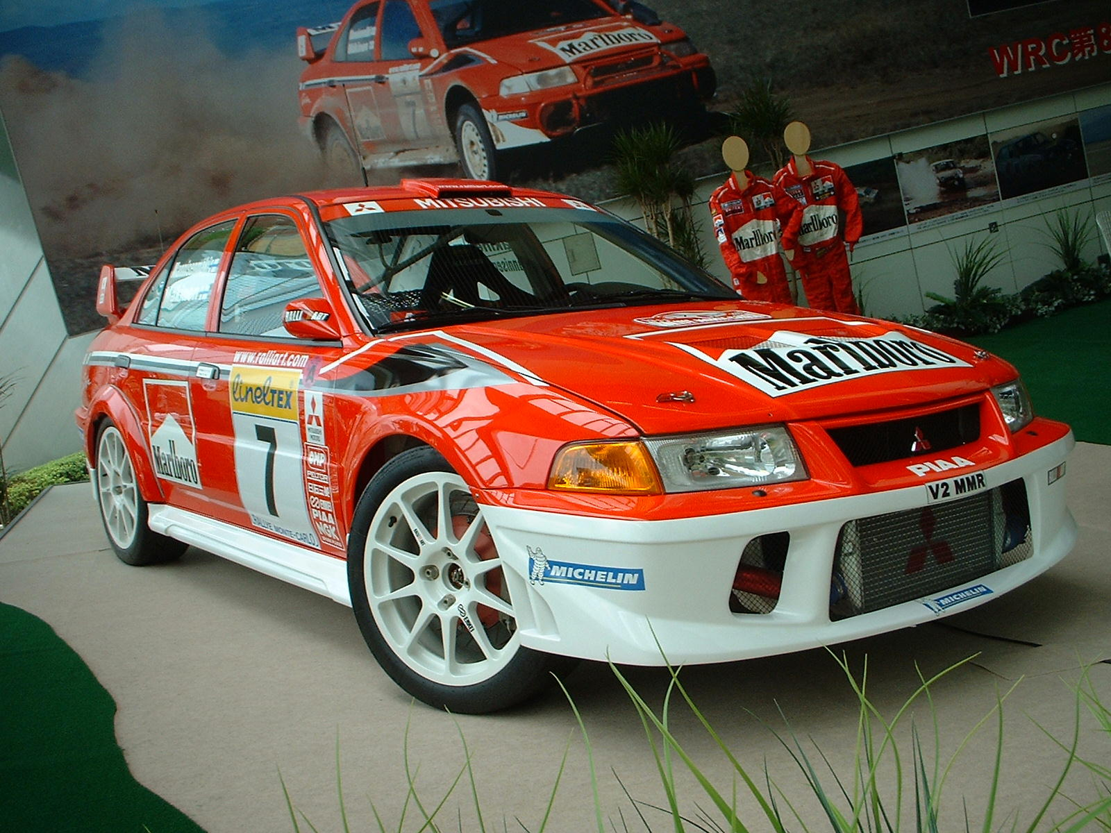 Mitsubishi Lancer Evolution 6 TME Gr.A Rallycar.